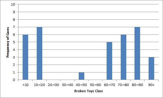 Histogram showing bimodal distribution.